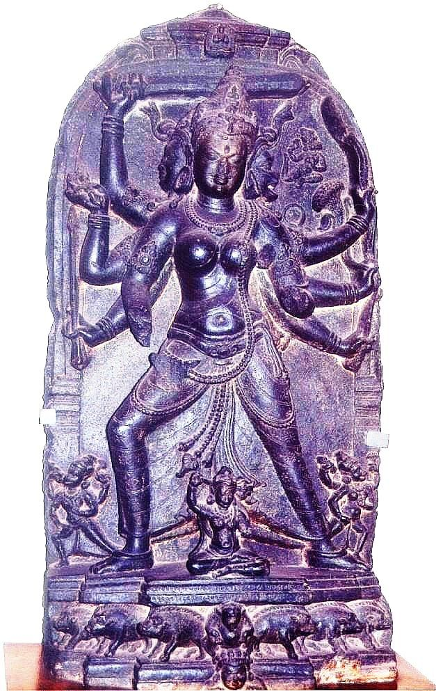 Tantrik, Art, Calcuta, India